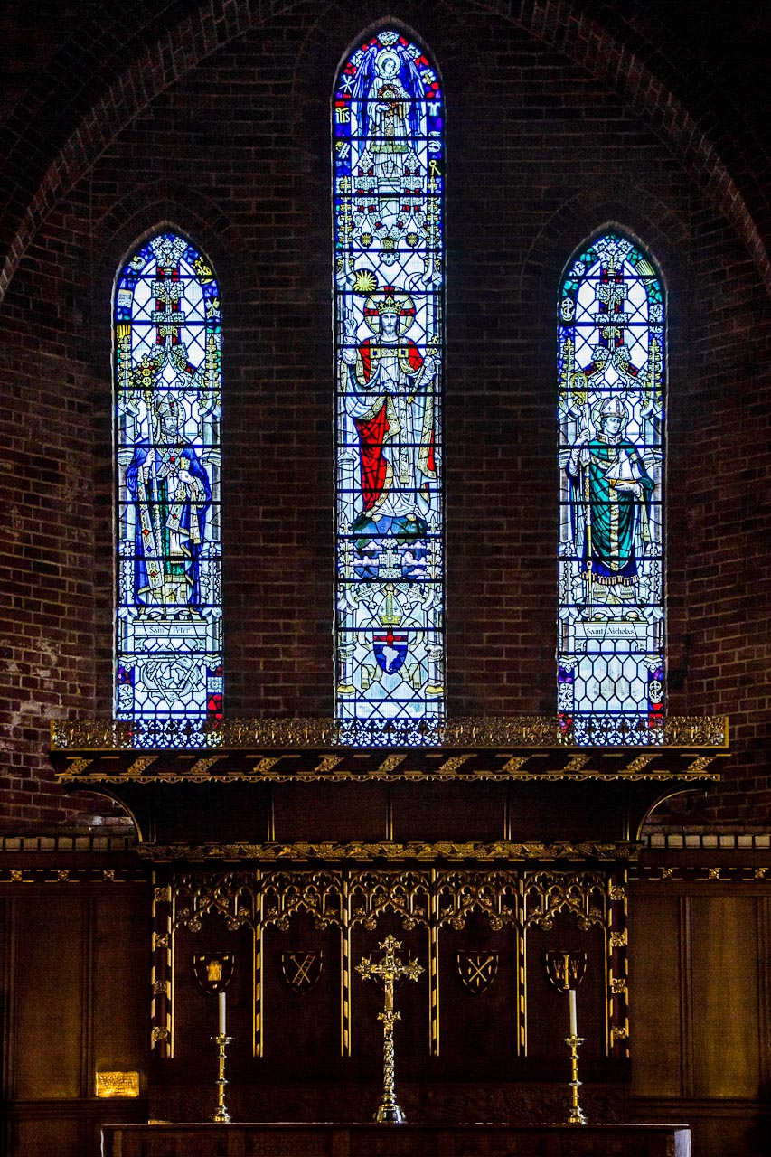 Christ Church Cathedral (Falkland Islands) windows